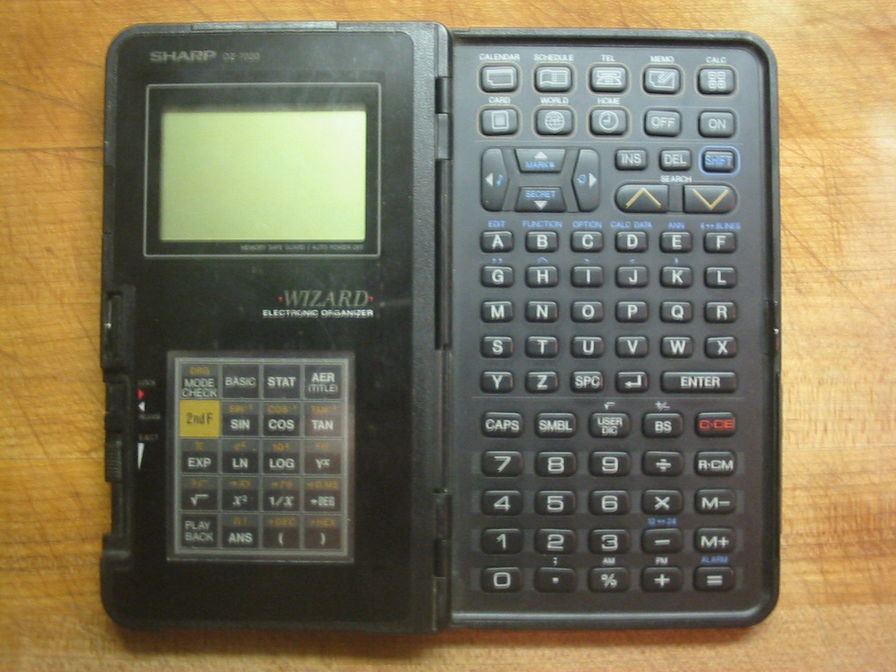 Sharp Wizard OZ-7000 open, with scientific computer card installed (OZ-707) showing full use of the twenty soft buttons for expansion cards. This photo was taken on about June 16 2003 by Eli the Bearded and is public domain.